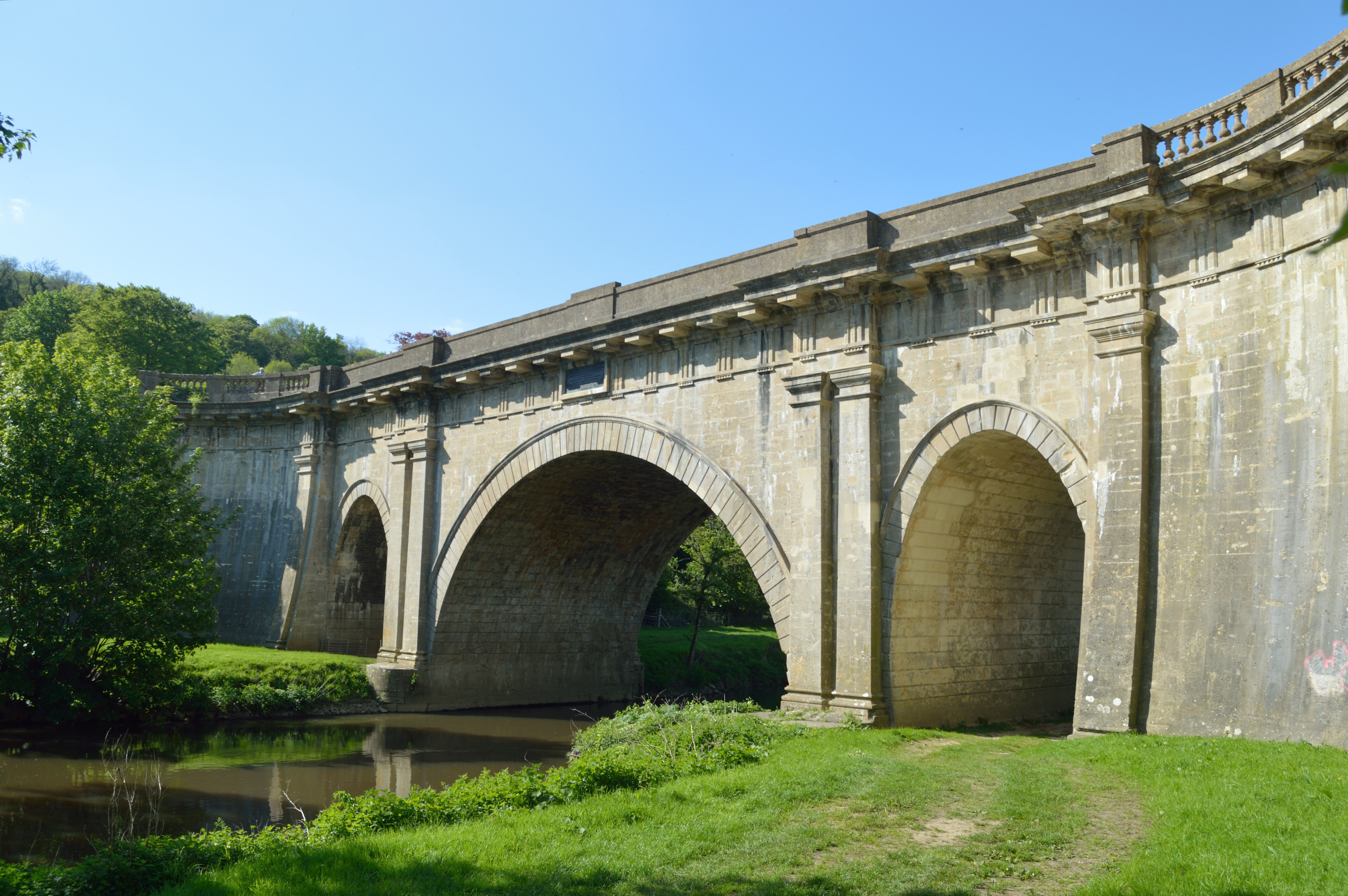 Southern side of Dundas Aqueduct.